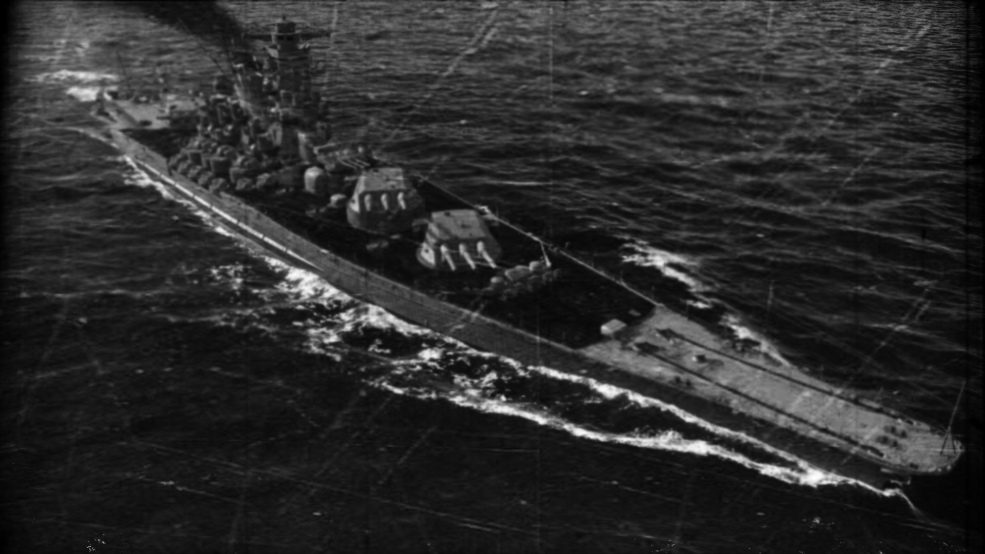 This photo was taken by one of the Imperial Japanese Air Force aircraft when Yamato was going to dock at Yokosuka.